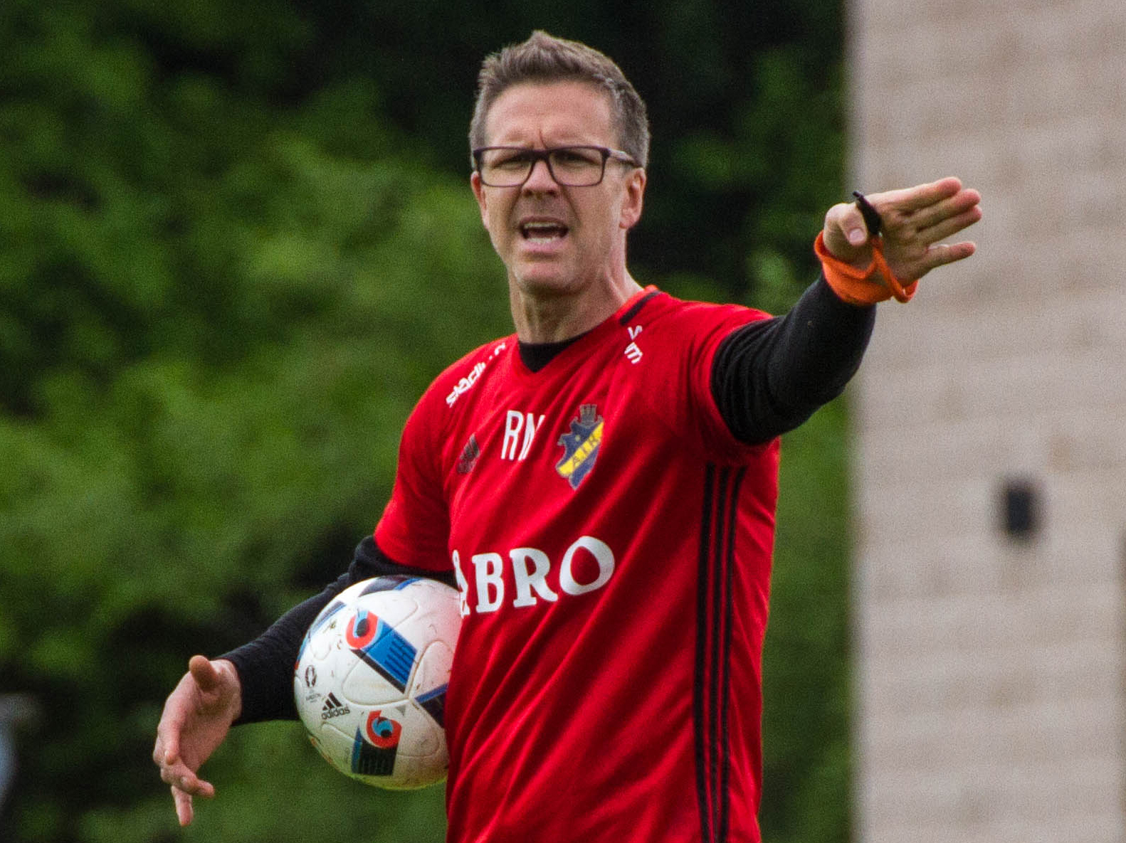 AIK manager Rikard Norling on the the training pitch in 2016. Photo by Jakob Persson.